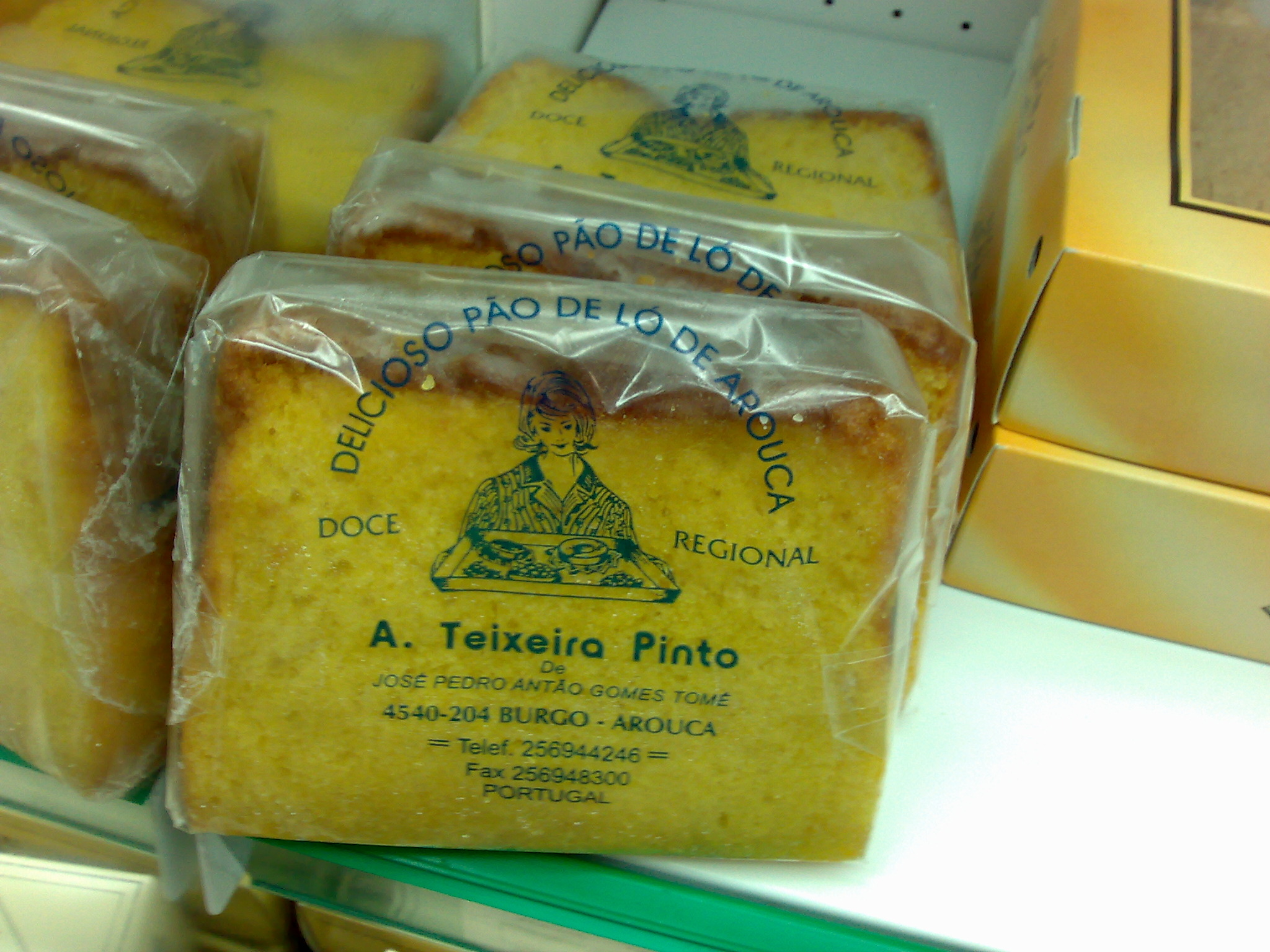 Pão-de-ló de Arouca, a portuguese cake.